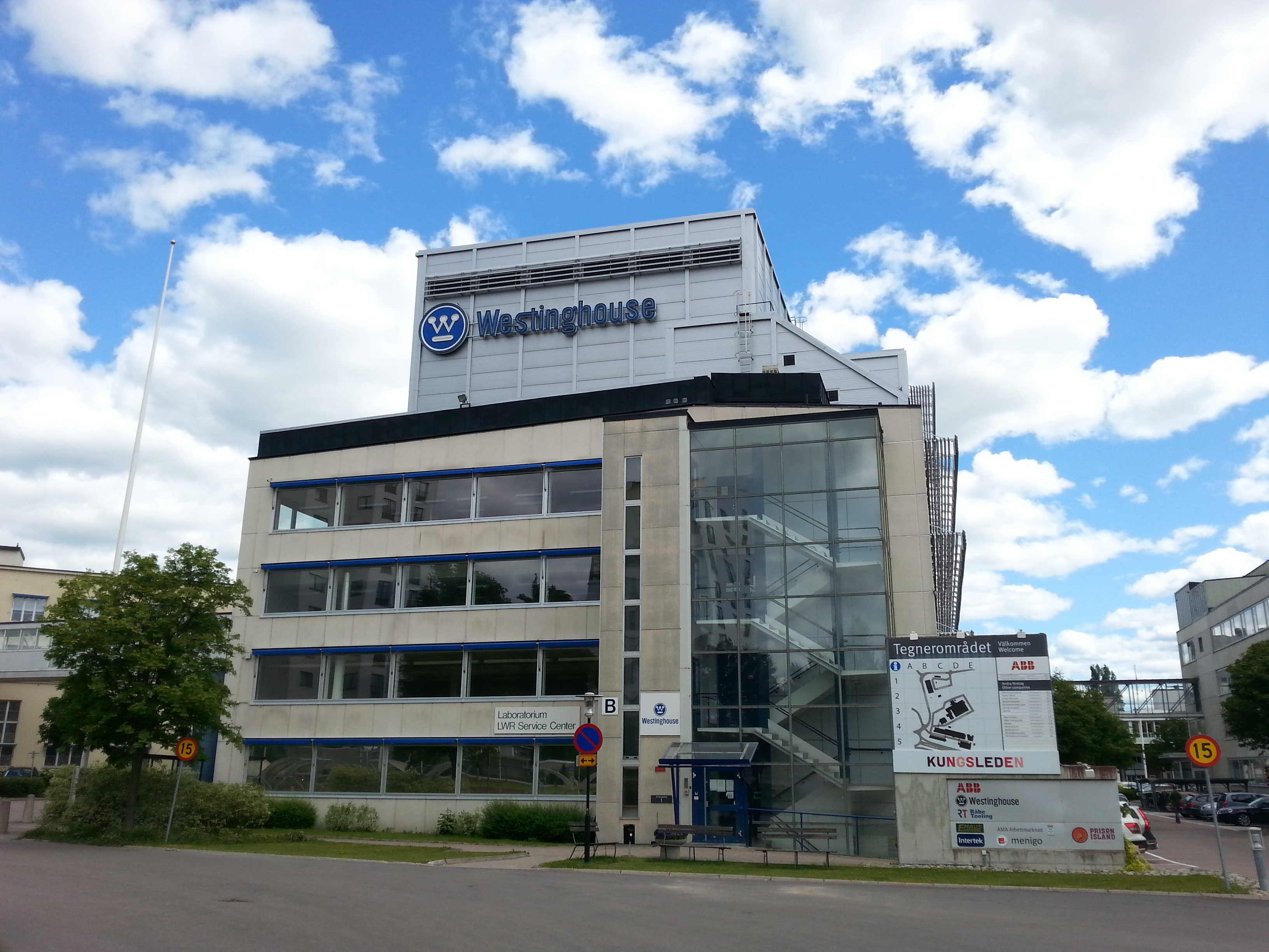 Westinghouse-Västerås